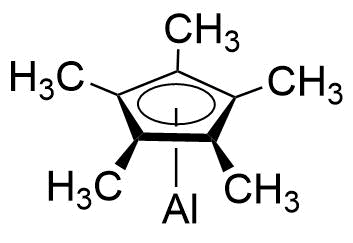 (Pentamethylcyclopentadienyl)aluminium(I) as a monomer